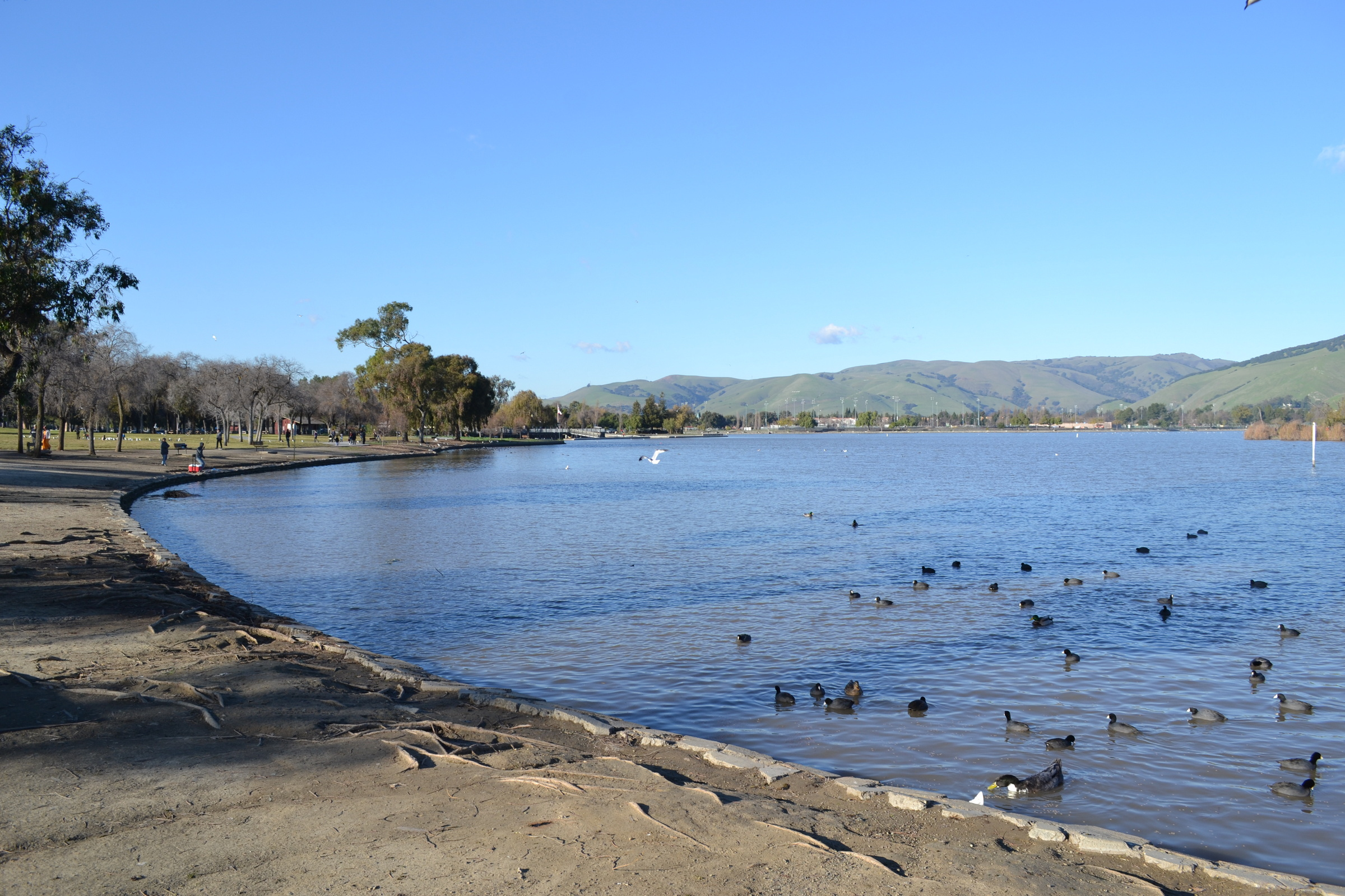 Lake Elizabeth — a pond in Fremont Central Park, Fremont, California.